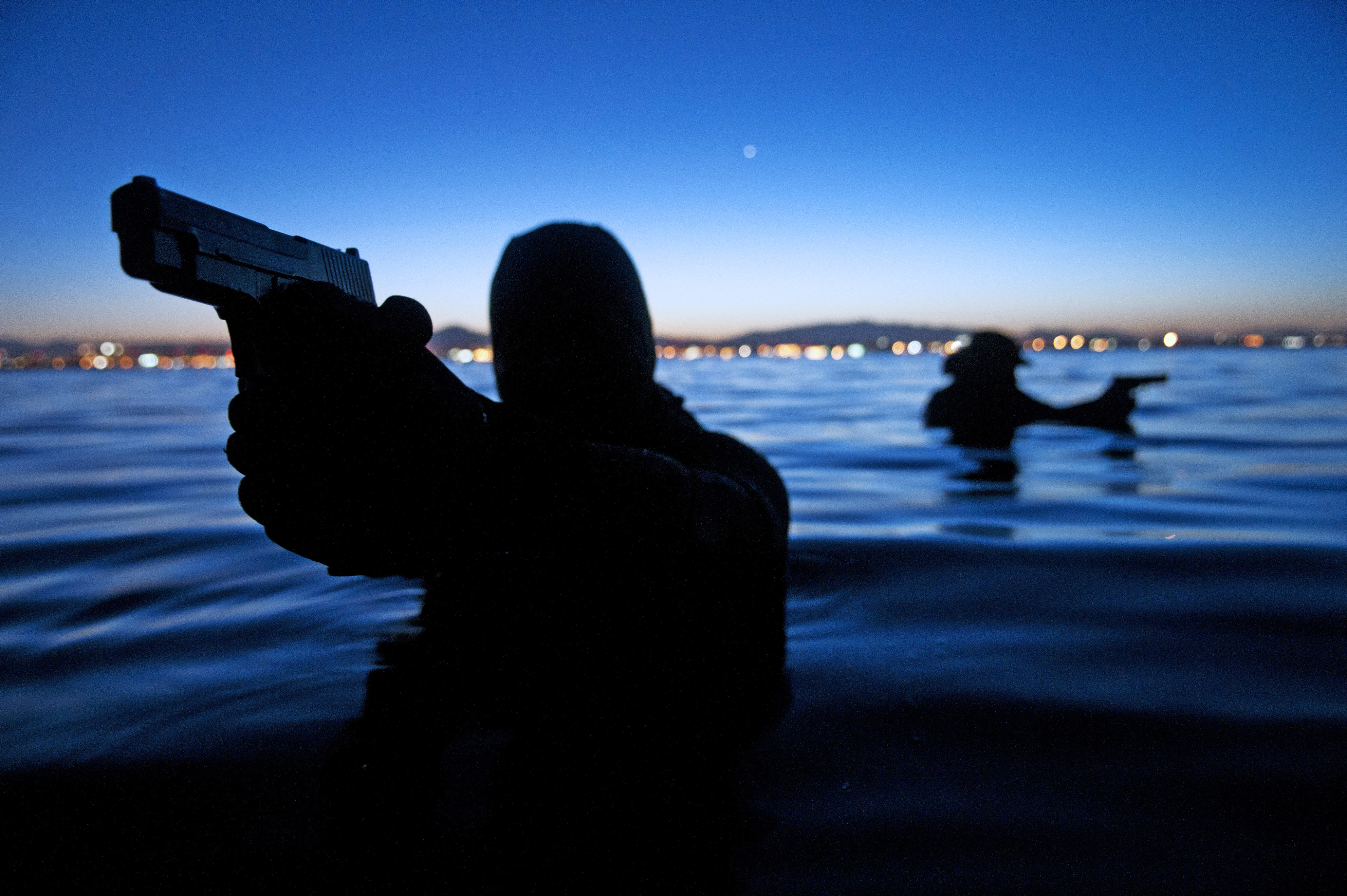 Promitinal picture: Seals use the night as defilade.